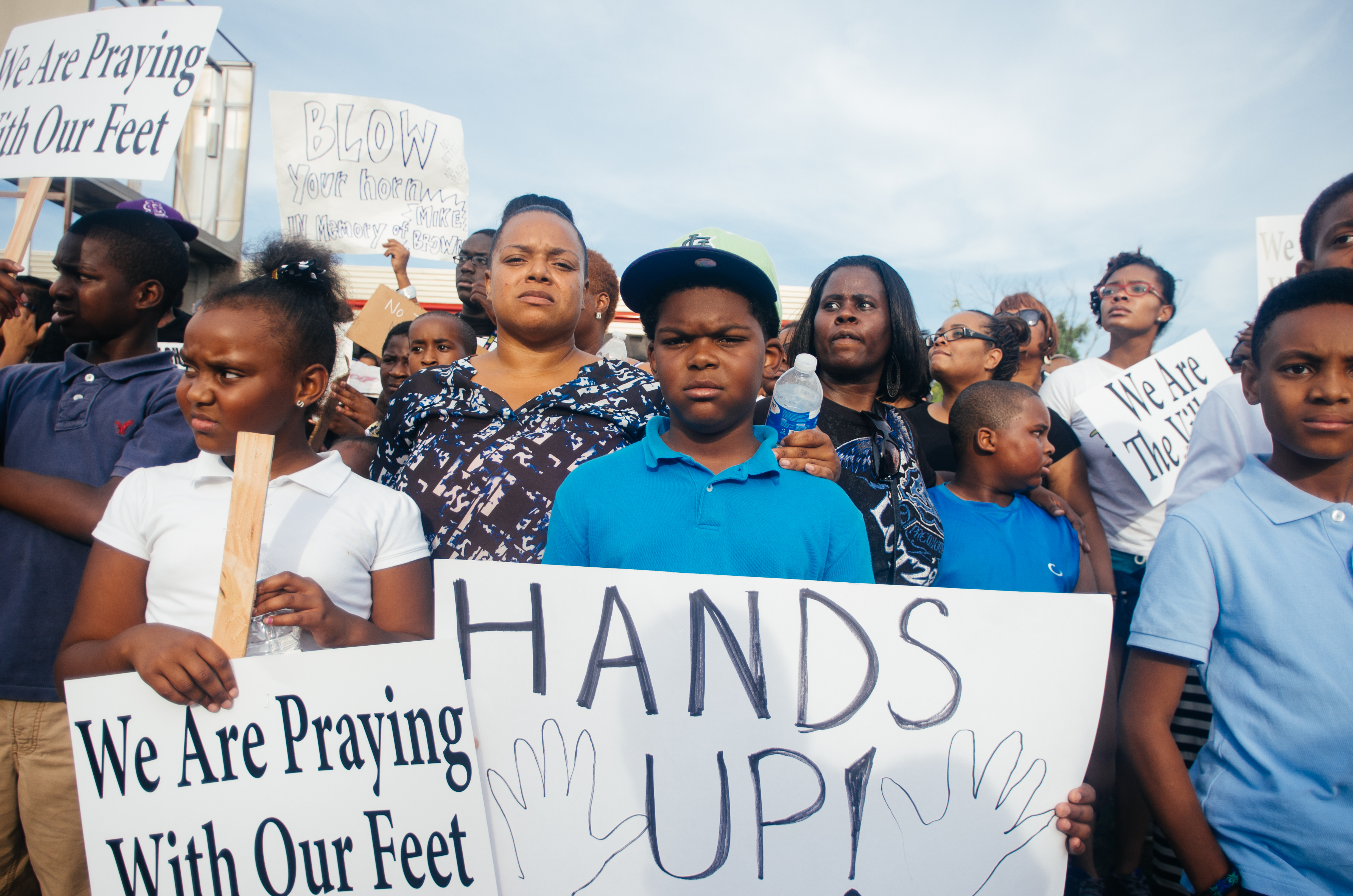 "Hands up! Don't shoot!" signs displayed at Ferguson protests